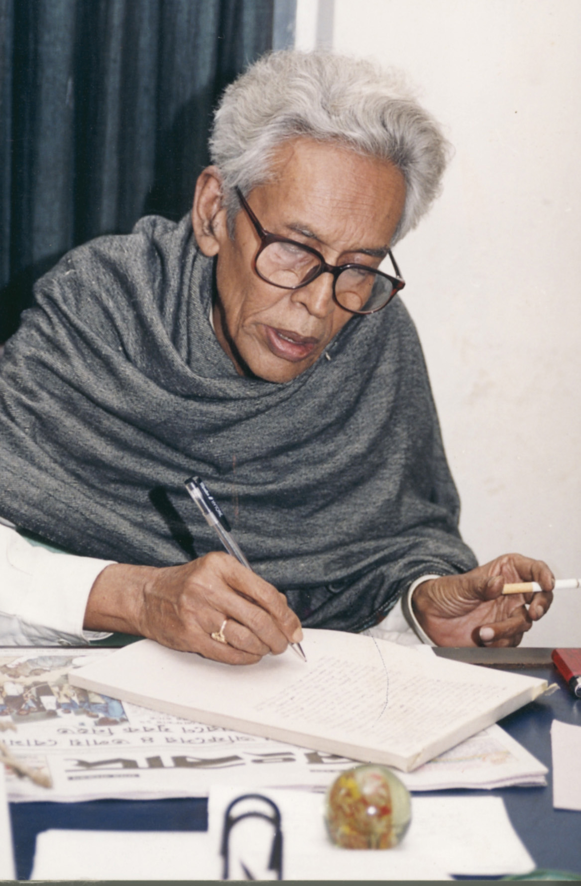 Santosh Gupta was a legend in journalism. His writings have always inspired the democratic and progressive movements in the country. He wrote 18 books on arts, poem, politics, literature and journalism and edited more than 15 books. An icon of self-sacrifice, honesty and patriotism, Santosh Gupta made significant contribution to all democratic movements including the War of Liberation in 1971